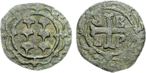 CRUSADERS, Frankish Greece. Lesbos. Francis II Gattilusio. 1384-1403. Æ 15mm (0.59 g, 8h). Mytilene mint. Gattilusio coat-of-arms within ornate octolobe / Voided cross pattée, B in quarters, within ornate octolobe. Cf. Metcalf, Crusades 1165; cf. Tzamale F 235; CCS -. VF, black-green patina with beige overtones, struck on a short flan.